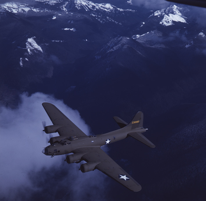 Title: [Boeing Flying Fortress, Mt. Rainier] Creator: Richie, Robert Yarnall, 1908-1984 Date: April 1943 Place: Mount Rainier, Washington Part Of: Robert Yarnall Richie photograph collection Physical Description: 1 transparency: film, color; 10 x 13 cm File: ag1982_0234_2518_K_999_sm_opt.jpg Rights: This image is protected by copyright law. No commercial reproduction or distribution of this image is permitted without the written permission of Southern Methodist University, Central University Libraries. This image may be used for educational purposes, provided it is not altered in any way, and Southern Methodist University, Central University Libraries, DeGolyer Library is cited. A high-quality version of this file may be obtained for a fee by contacting . For more information, see: View the full series: View Robert Yarnall Richie photograph collection